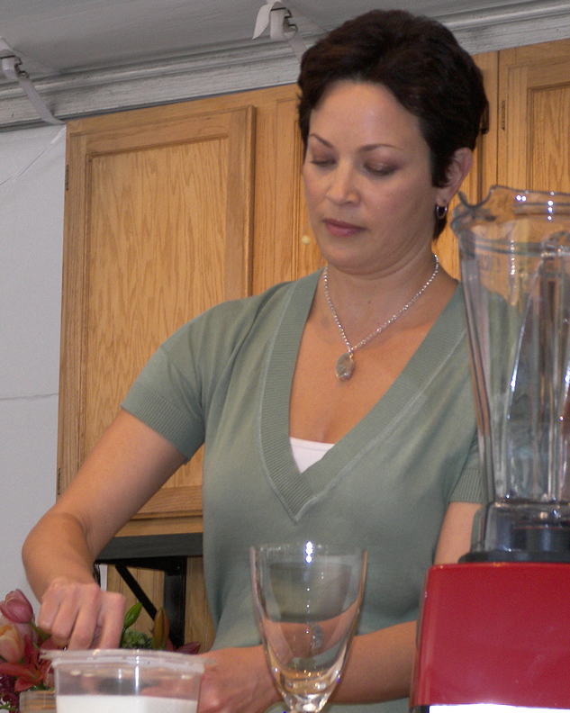 Ellie Krieger at the 2009 Texas Book Festival, Austin, Texas, United States.